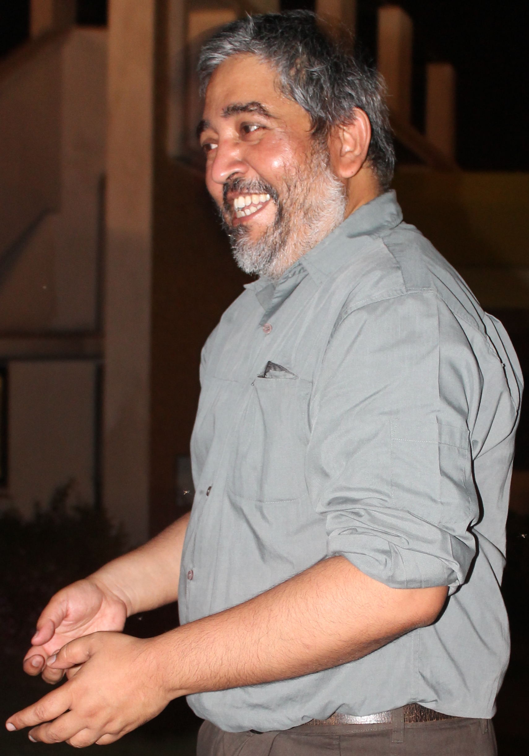 Image of Prof. Kapil Hari Paranjape